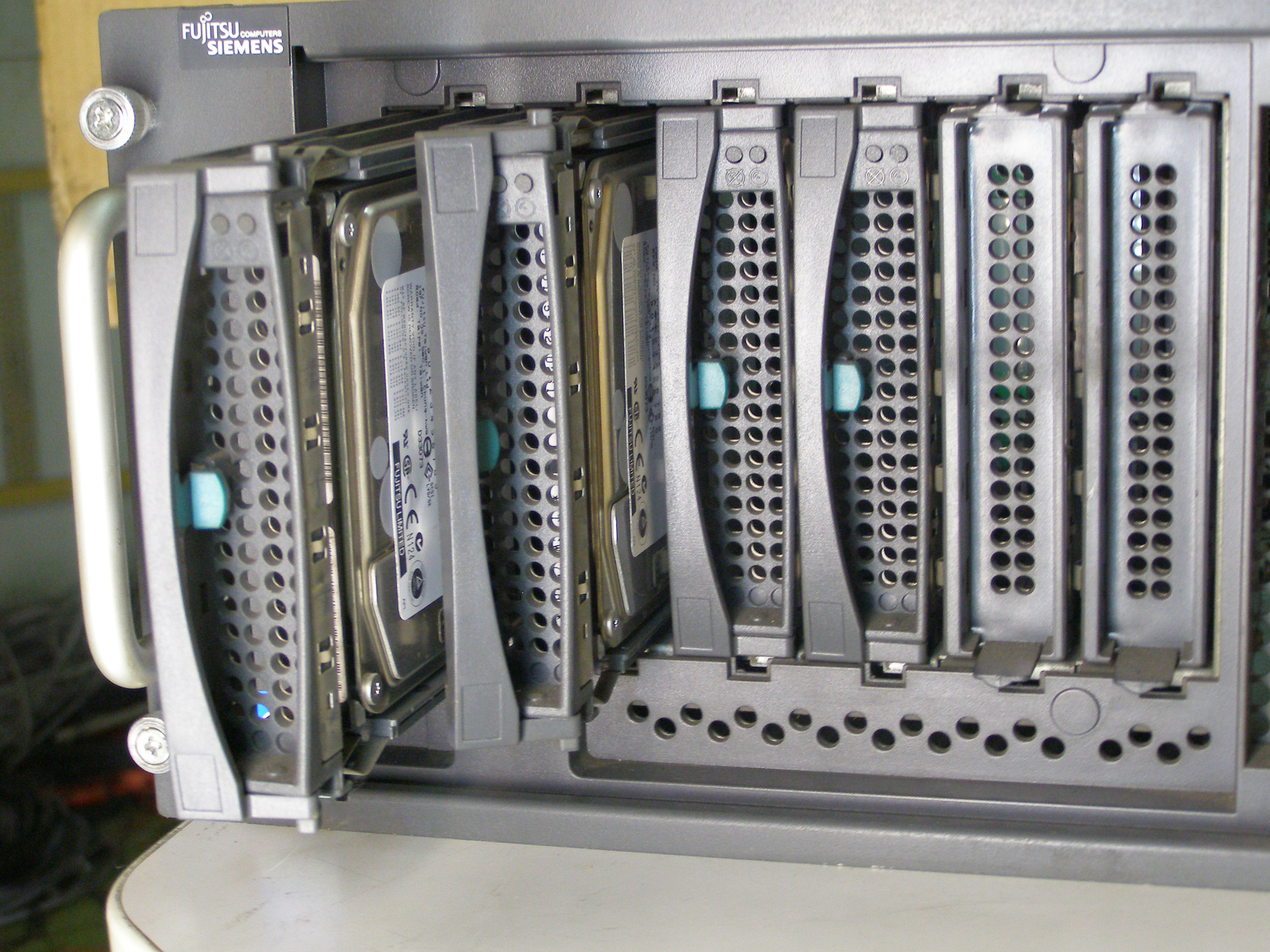 Hot Swap HD Drive bay into 19" rackmount FSC Primergy TX200 S2 Server